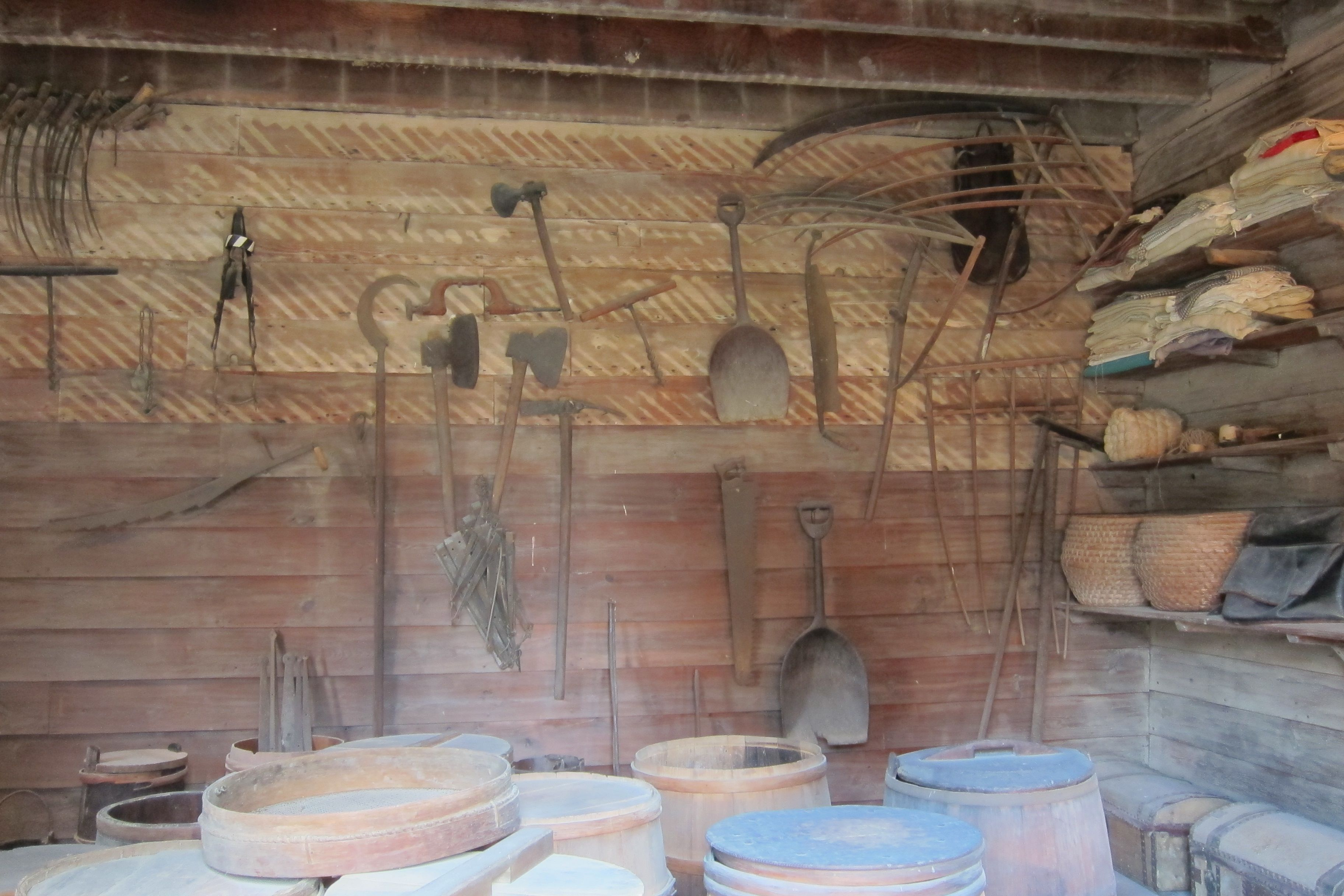 Mount Vernon Estate equipment used for farming.